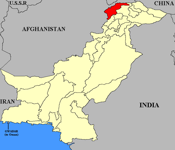 Approximate location of the former princely state of Chitral within Pakistan